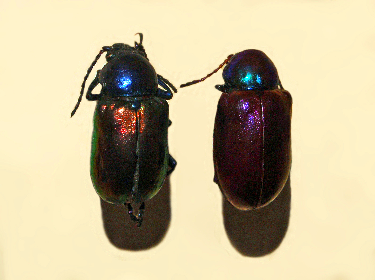 Chrysochares asiaticus from Russia